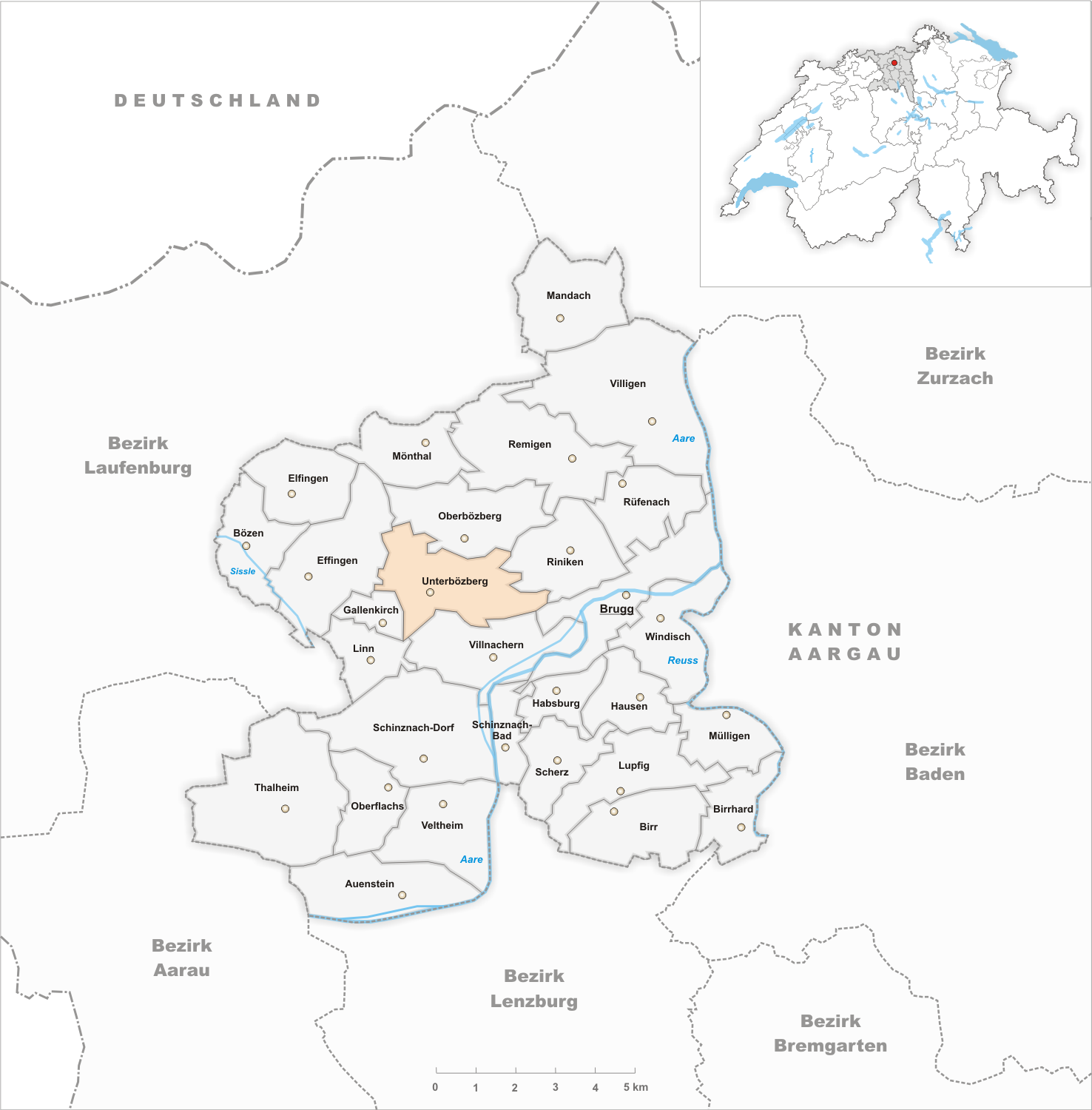 Municipality Unterbözberg